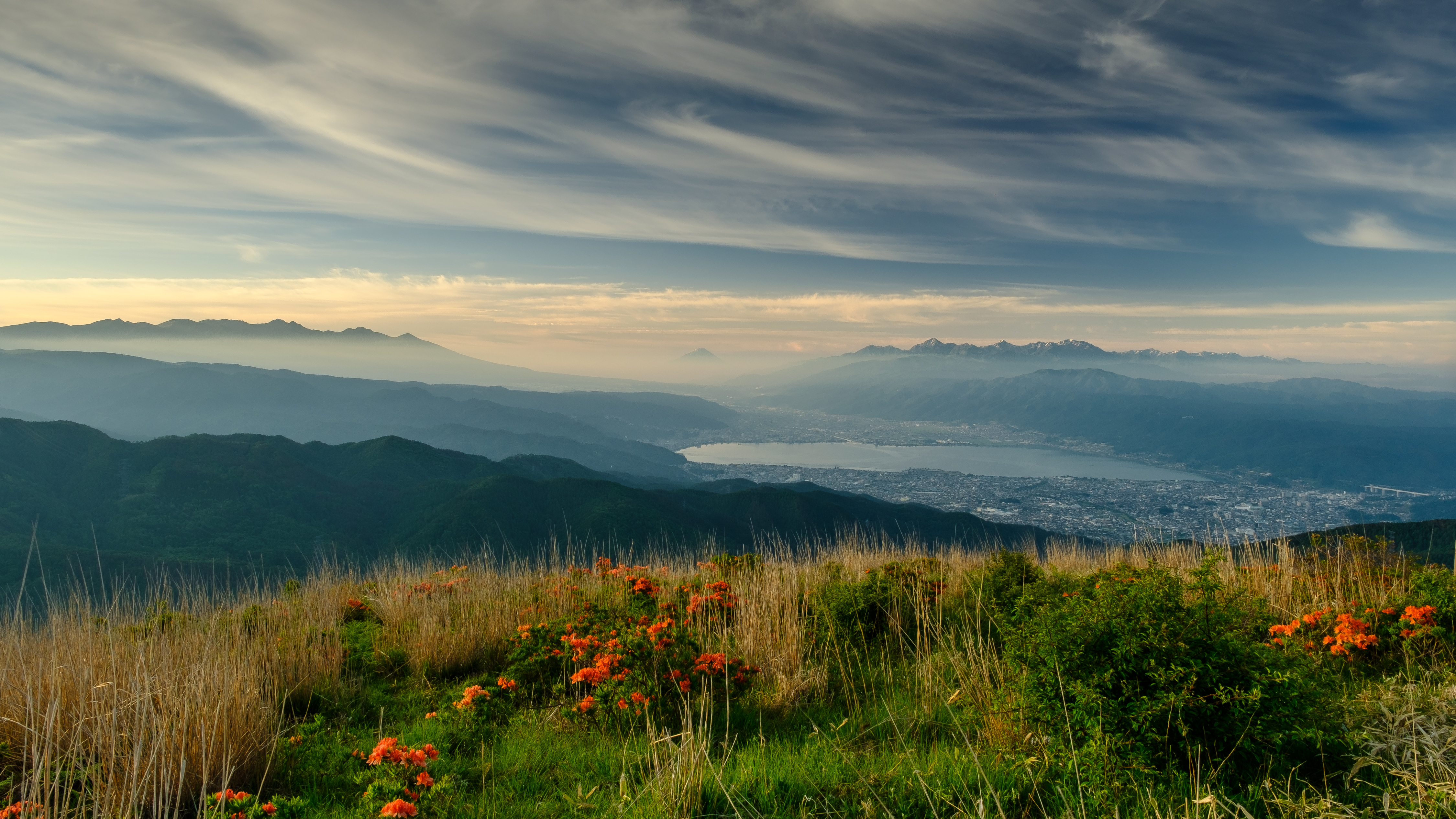 View from Takabocchi early in the morning.